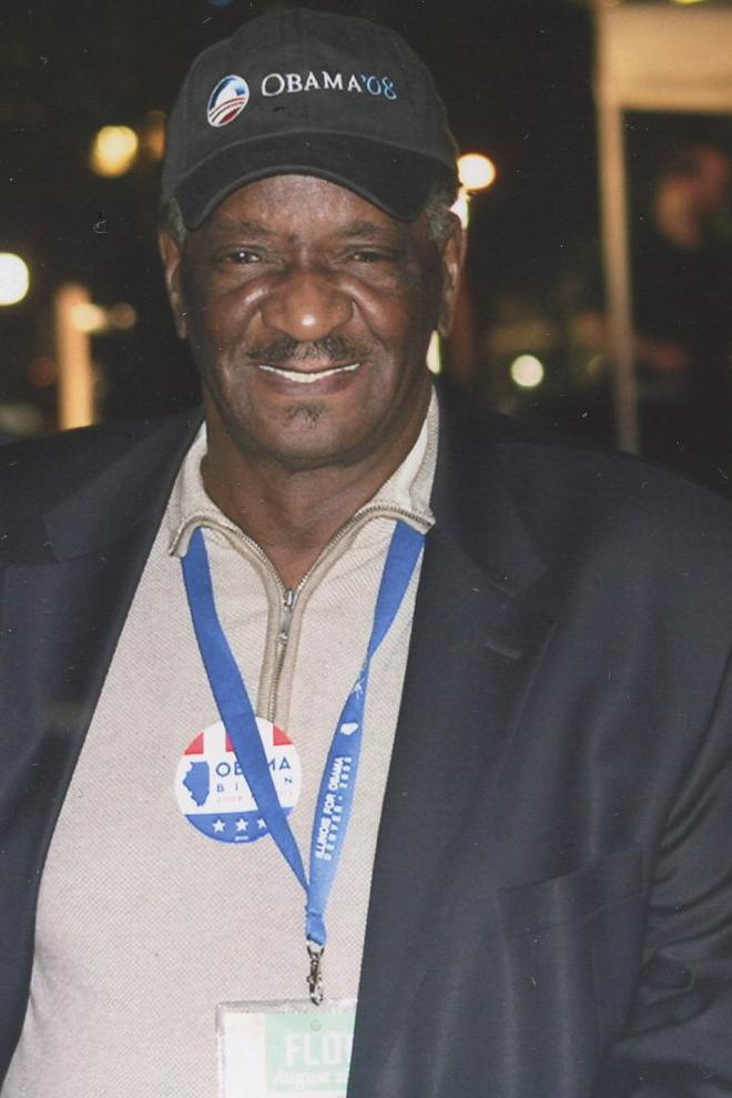 Kwame Raoul